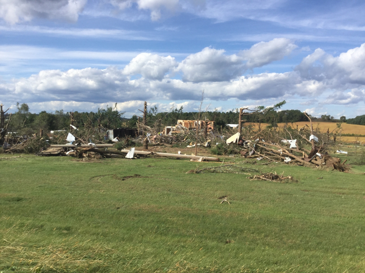 Denuded trees and EF3 damage to a home near Pine Grove, Wisconsin.